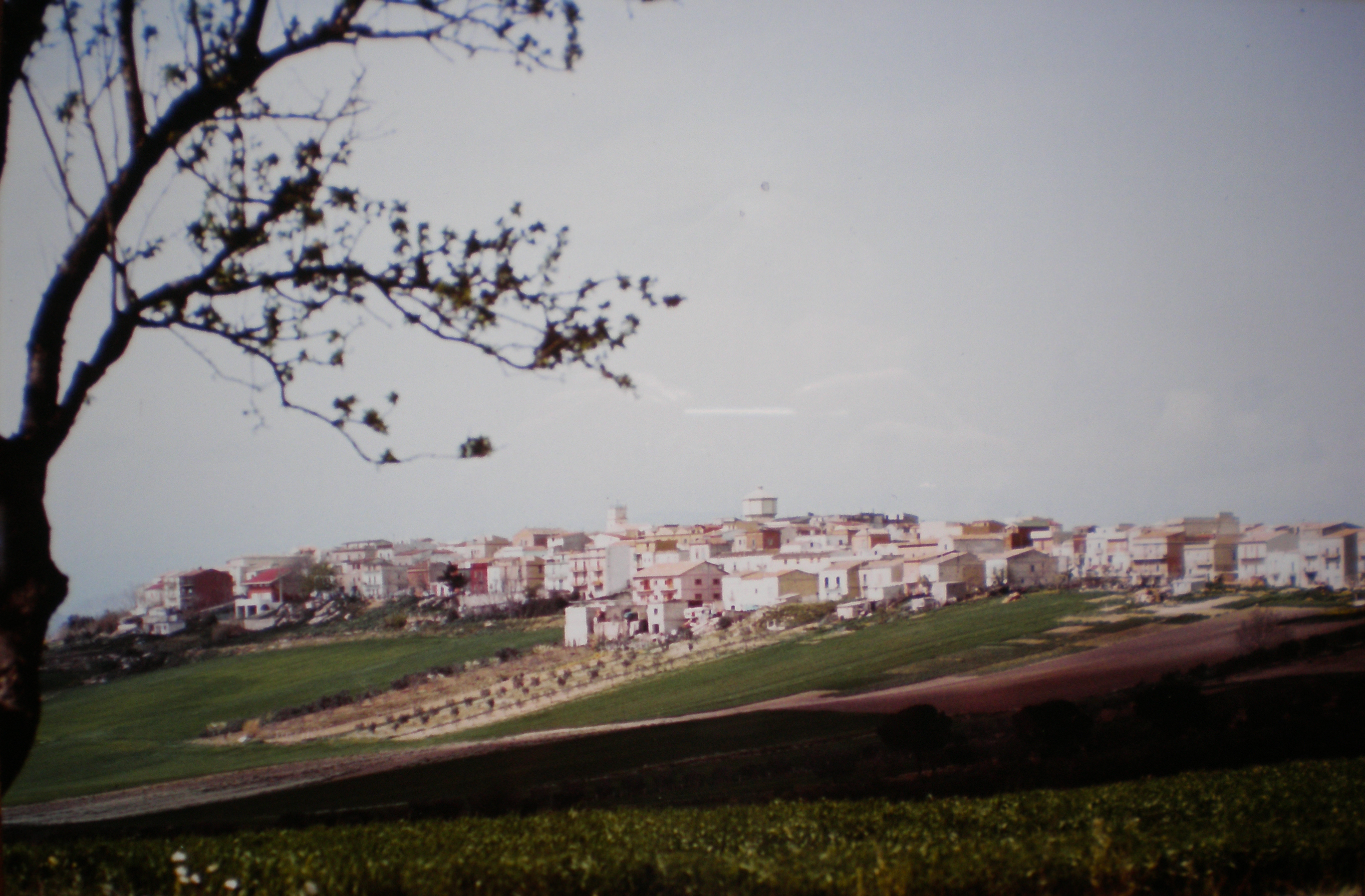 Castelluccio dei Sauri. Veduta del paese da sud-est